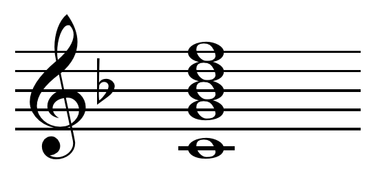 [Dominant] eleventh chord in F, on C (C11). "As it appears in actual music": C, —, G, B♭, D, F. Created by Hyacinth (talk) 14:10, 1 July 2011 (UTC) using Sibelius 5. See: File:Eleventh_chord_without_third_on_C.mid